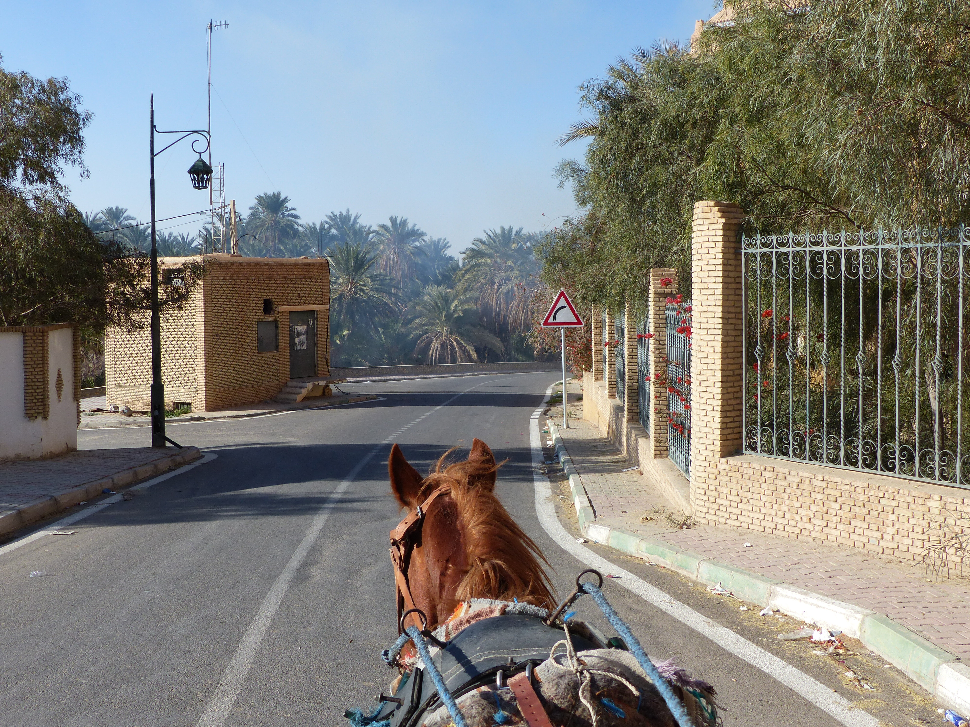 This is an image with the theme "Africa on the Move or Transport" from: Tunisia